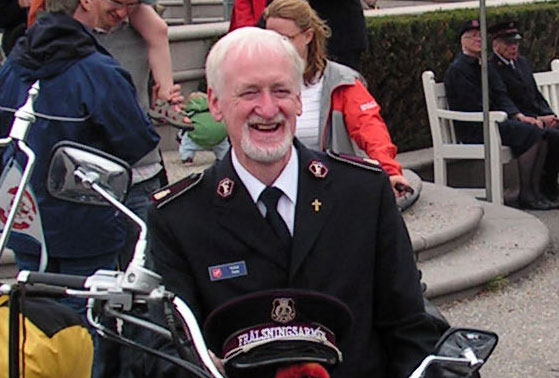 Salvation Army officer Victor Poke